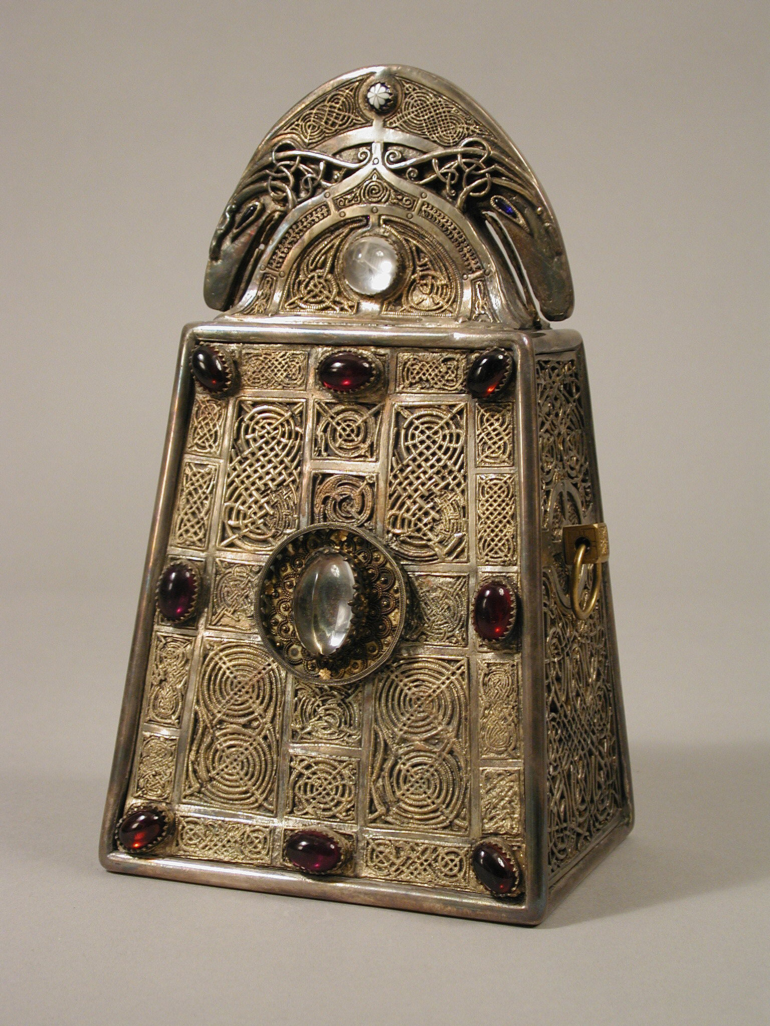 Irish; Bell; Reproductions-Metalwork